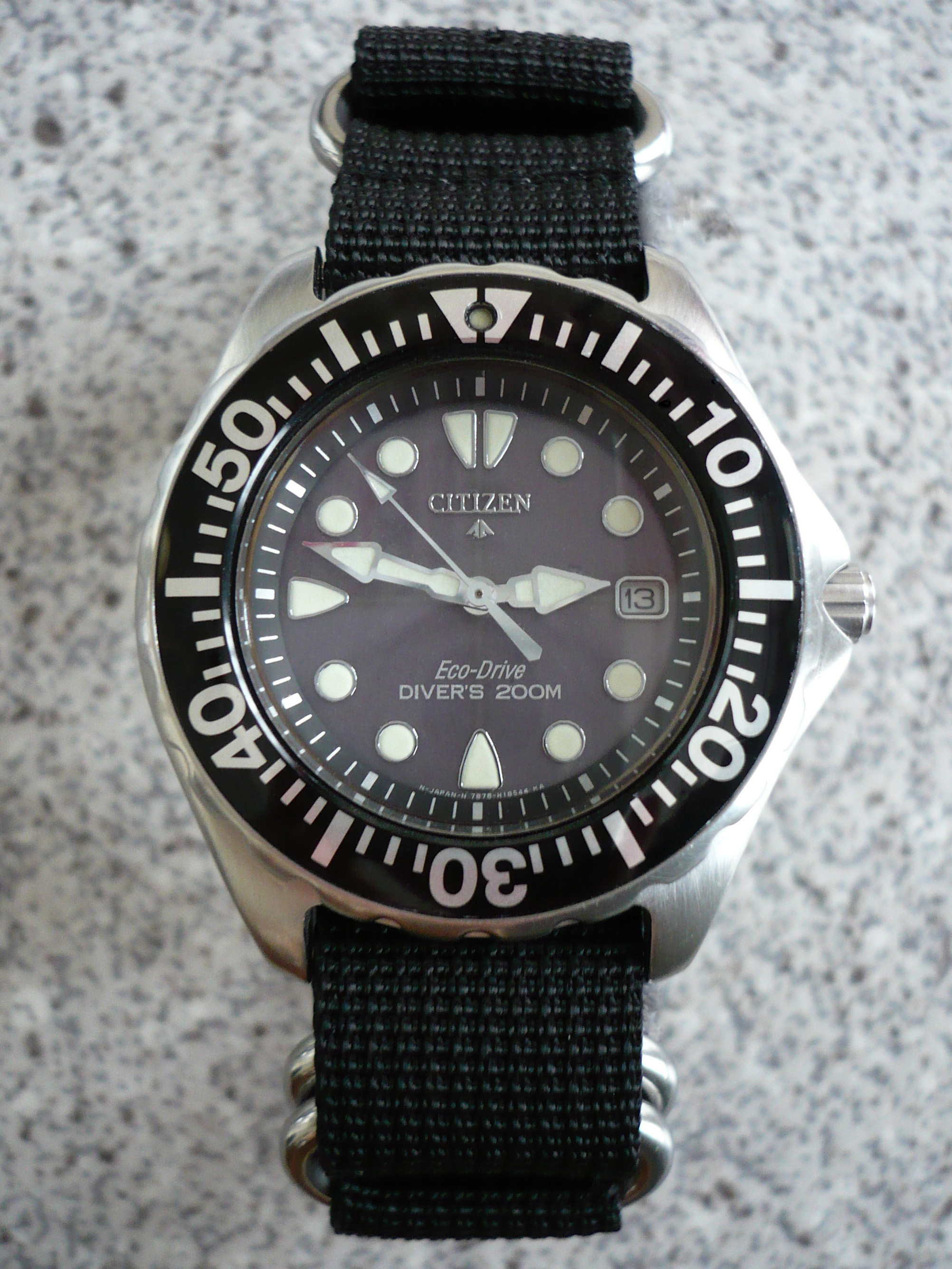 Citizen Promaster Eco-Drive AP0440-14F Diver's 200 m (tool watch suitable for scuba diving) on a 4-ring NATO style aftermarket strap made of ballistic nylon. Under the dial, 4 solar cell segments are just visible. The 7878 caliber Eco-Drive movement used in this watch can run for 180 days on its secondary power cell before it needs light exposure for recharging. The movement has a ± 20 seconds per 30 days accuracy specification (within a normal temperature range of 5°C/41°F to 35°C/95°F). This particular watch was manufactured in May 2000.